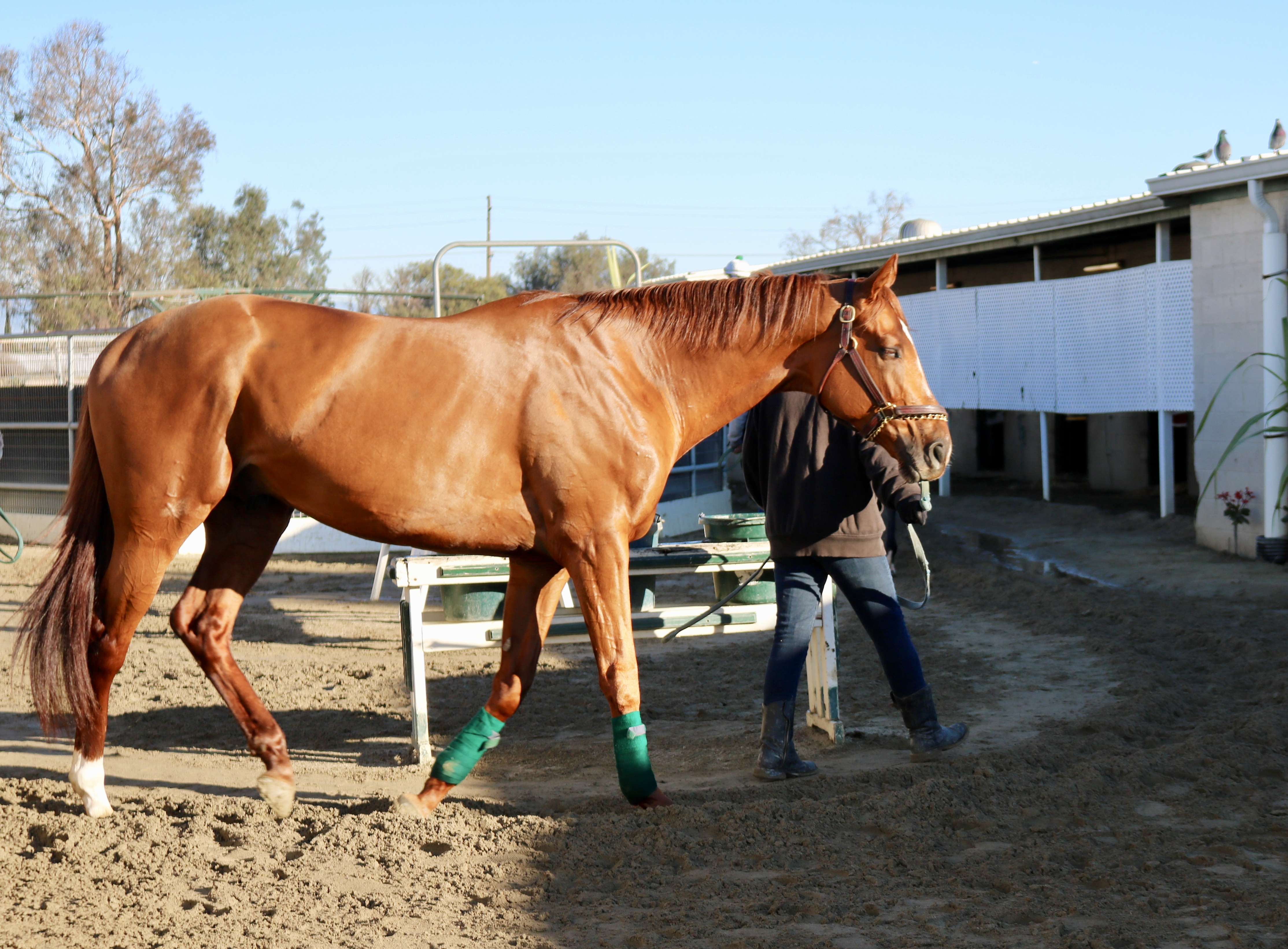 Backside of Los Alamitos racetrack, walking a hot horse after a workout.